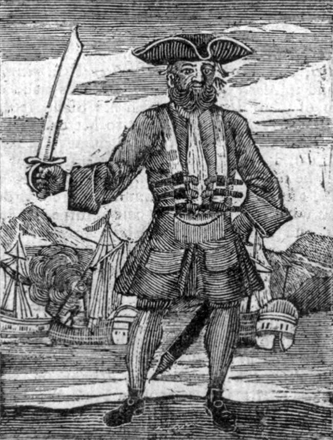 Blackbeard the Pirate: this was published in The History...of Pirates, 1725.